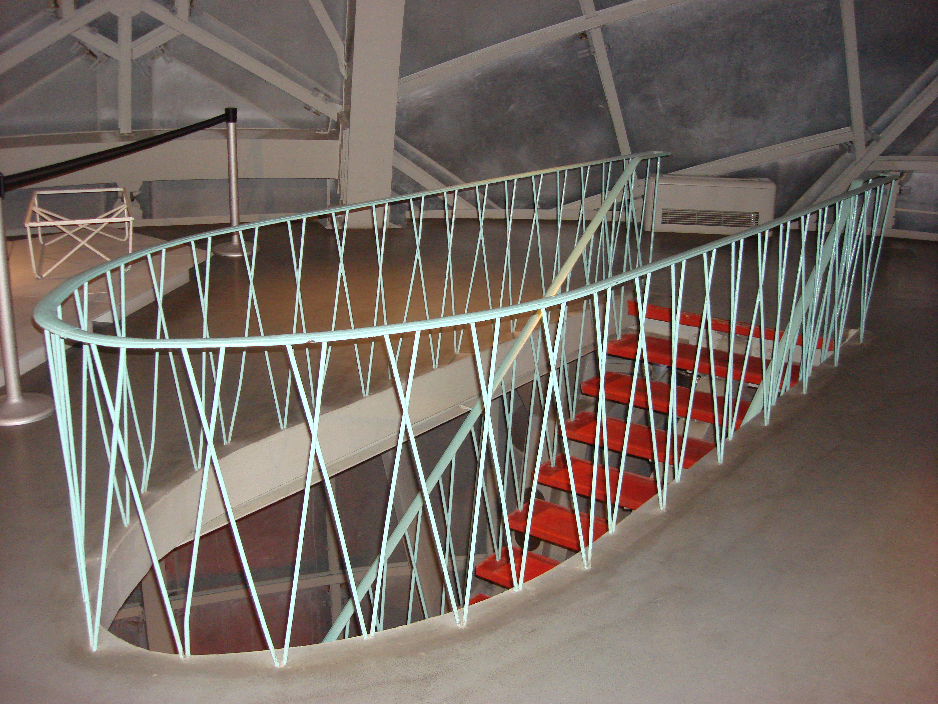 Staircase in the Atomium, Brussels